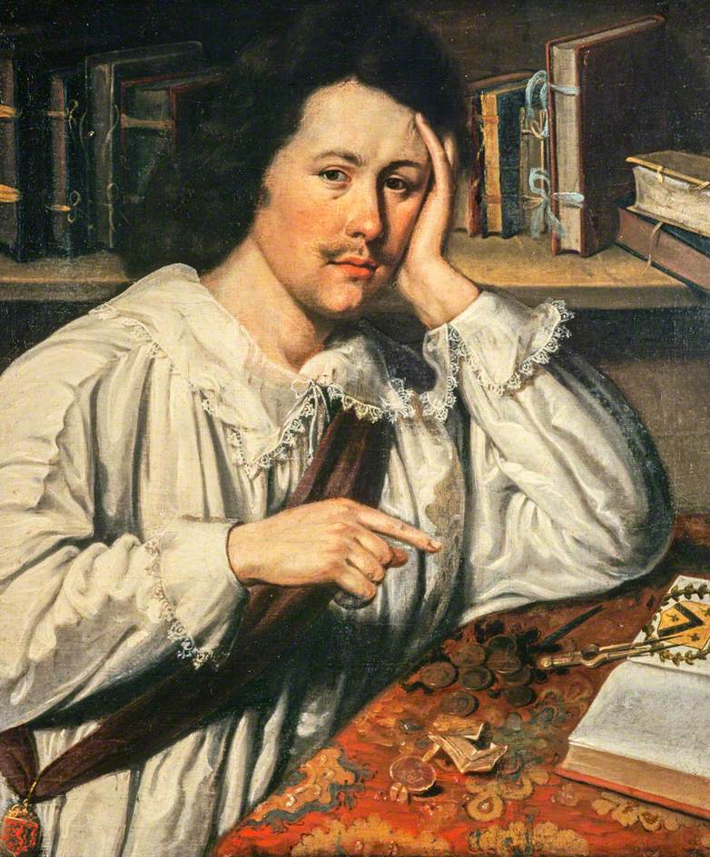 A painting of Sir James Balfour of Denmilne and Kinnaird by an unknown artist. Balfour was Lord Lyon King of Arms from 1630 until 1654 and this image was taken around 1640.